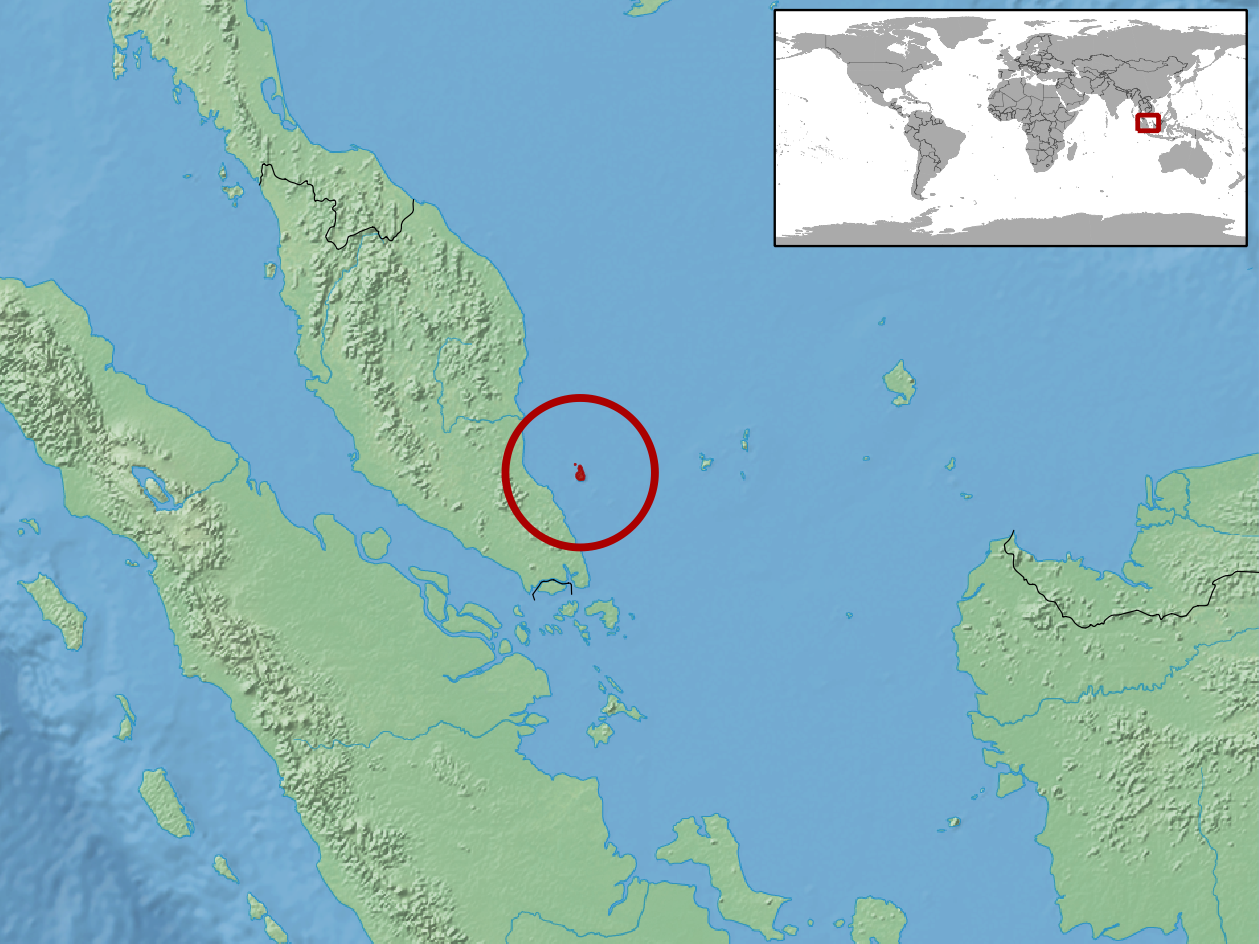 geographic distribution of Cnemaspis limi (Native: Malaysia)